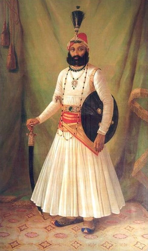 Maharana Fateh Singh (1849–1930).